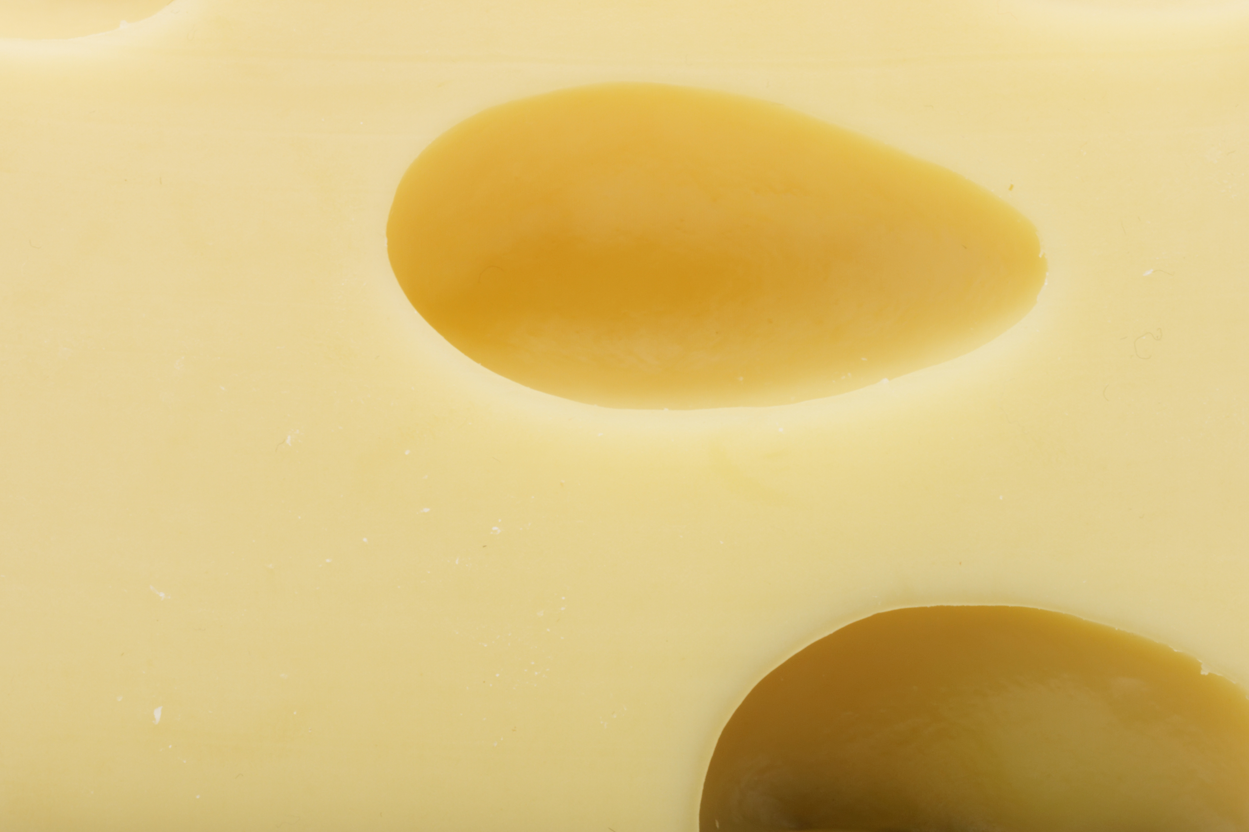 Emmental de Savoie